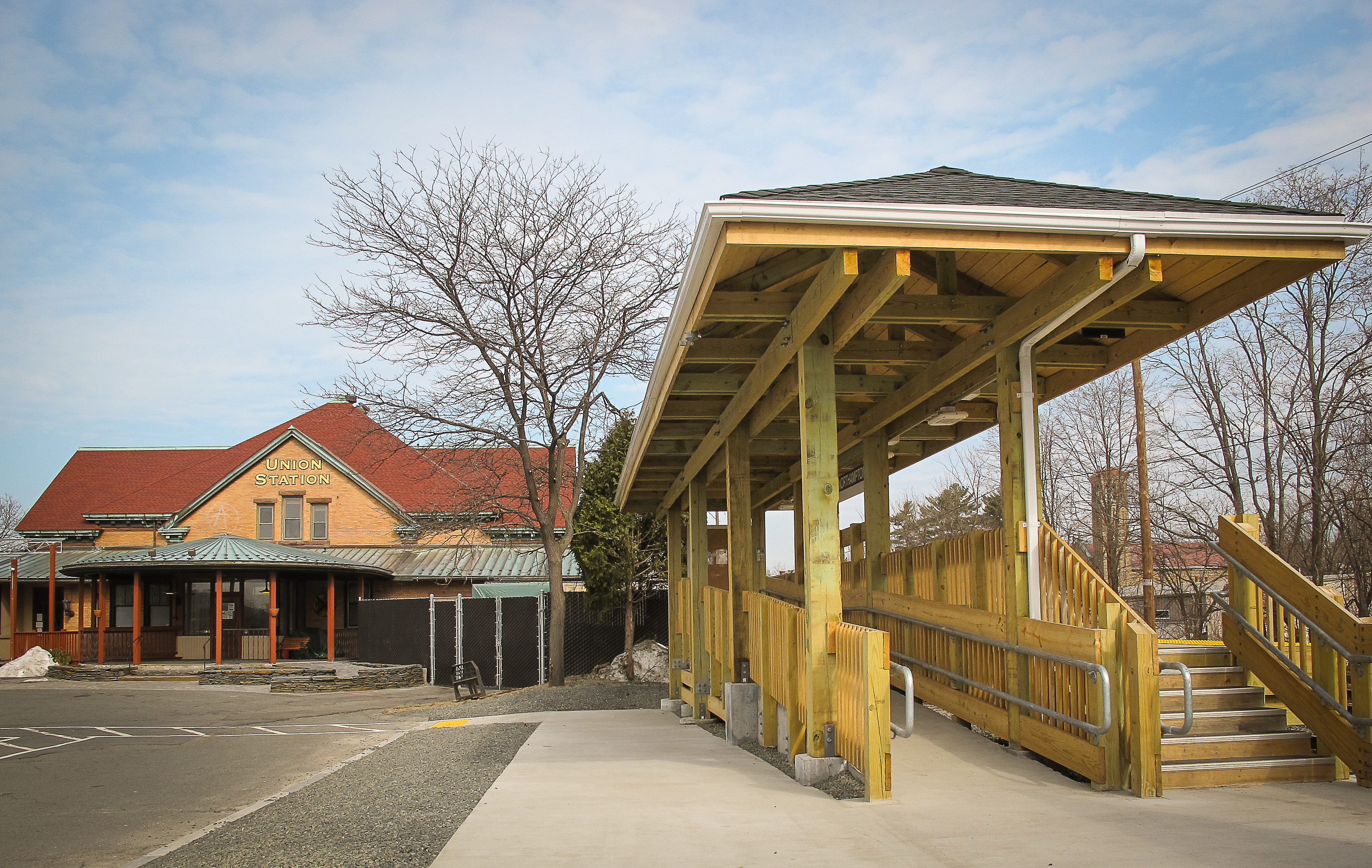 An image of the old Union Station and the new temporary passenger platform in Northampton, Massachusetts